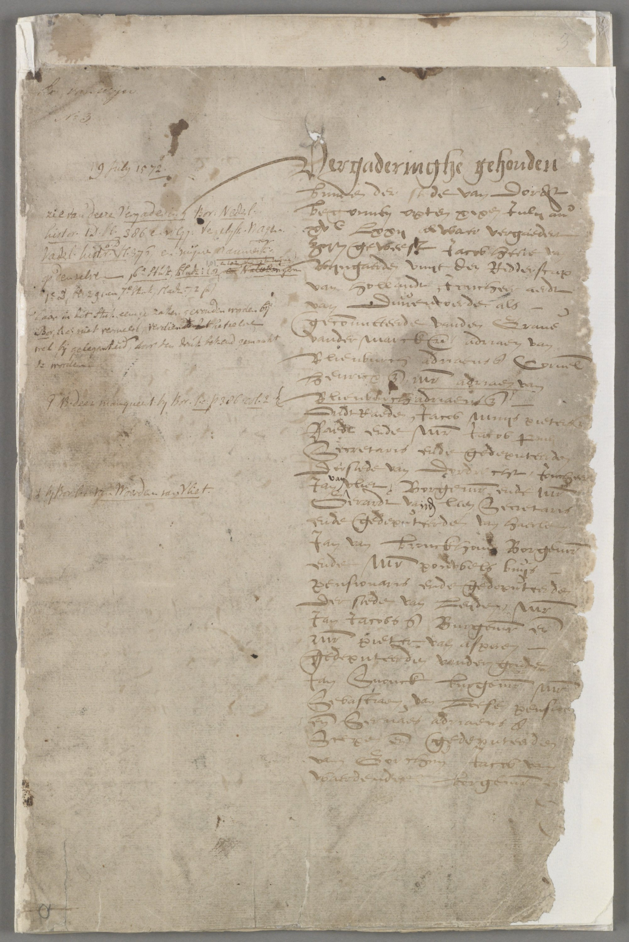 First Free Assembly of States of Holland, Minutes of the first free Assembly of States held in Dordrecht. 1572 July 19 - 23 1 quire